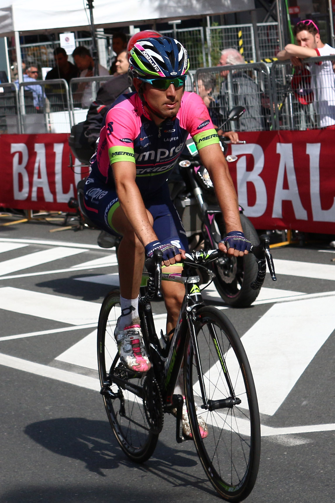 Diego Ulissi at Giro d'Italia 2014